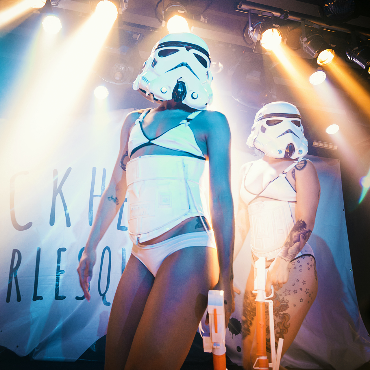 The Suicide Girls' Blackheart Burlesque show, live in Québec City